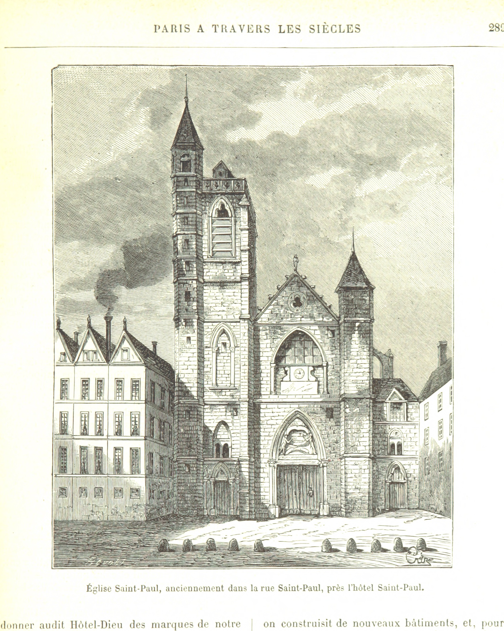 Image taken from: Title: "Paris à travers les siècles. Histoire nationale de Paris et des Parisiens depuis la fondation de Lutèce jusqu'à nos jours, etc" Author: GOURDON DE GENOUILLAC, Nicolas Jules Henri. Shelfmark: "British Library HMNTS 10168.m.14." Volume: 01 Page: 1035 Place of Publishing: Paris Date of Publishing: 1879 Issuance: monographic Identifier: 001476975 Explore: Find this item in the British Library catalogue, 'Explore'. Download the PDF for this book (volume: 01) Image found on book scan 1035 (NB not necessarily a page number) Download the OCR-derived text for this volume: (plain text) or (json) Click here to see all the illustrations in this book and click here to browse other illustrations published in books in the same year. Order a higher quality version from here.